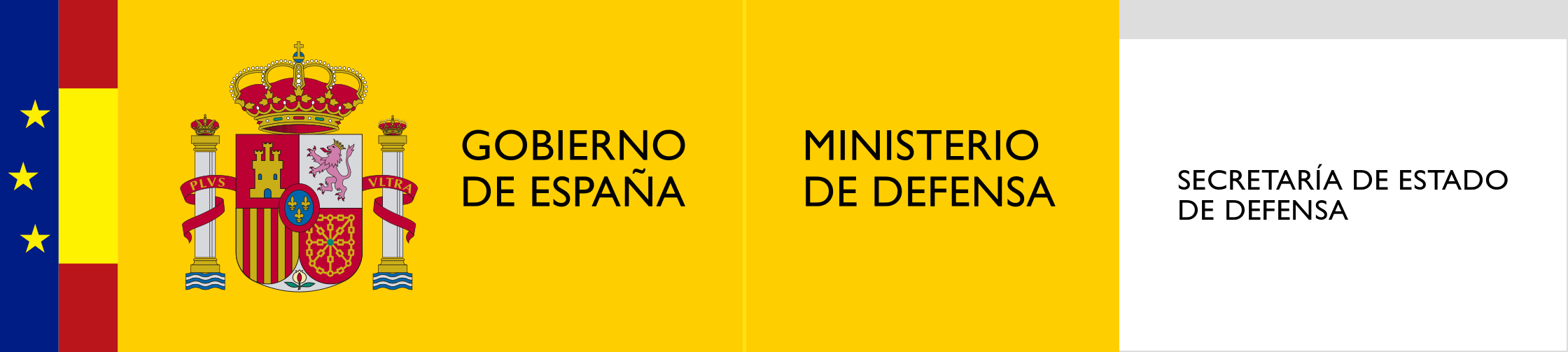 Logo of the Secretariat of State of Defence of Spain